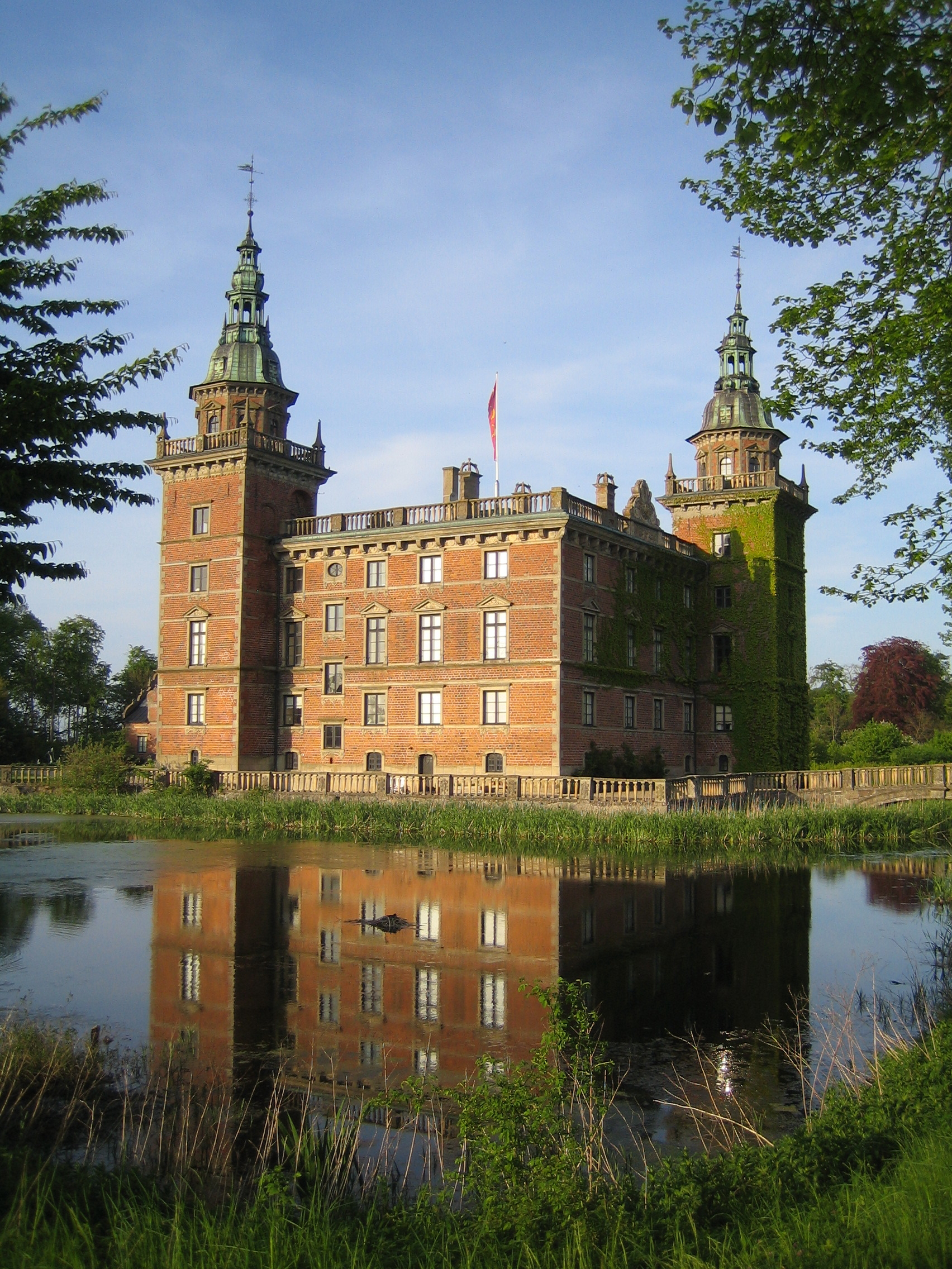 The castle of Marsvinsholm, Skåne, Sweden